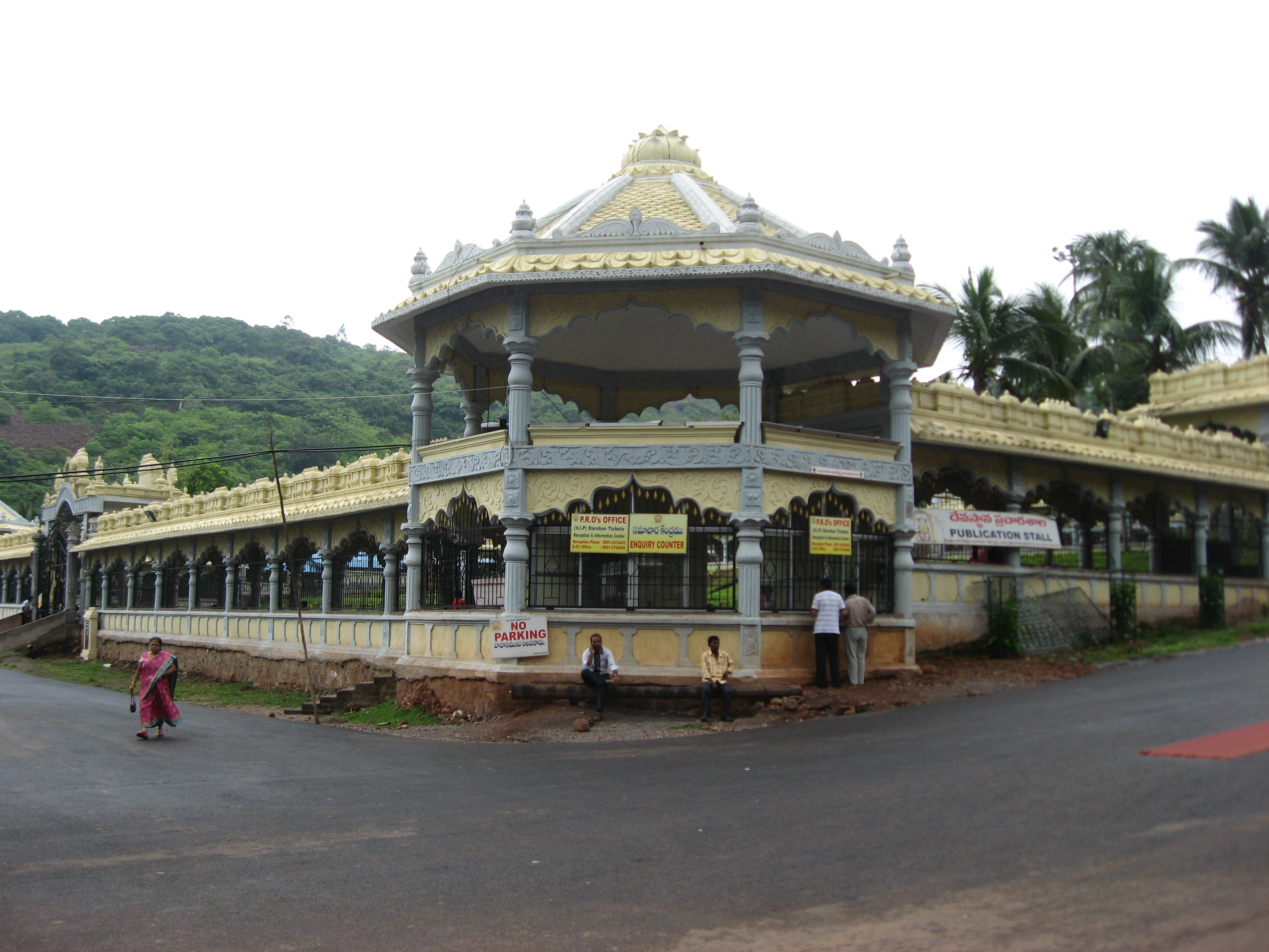 In the October of 2011, new roads have been laid at the Simhachalam temple.